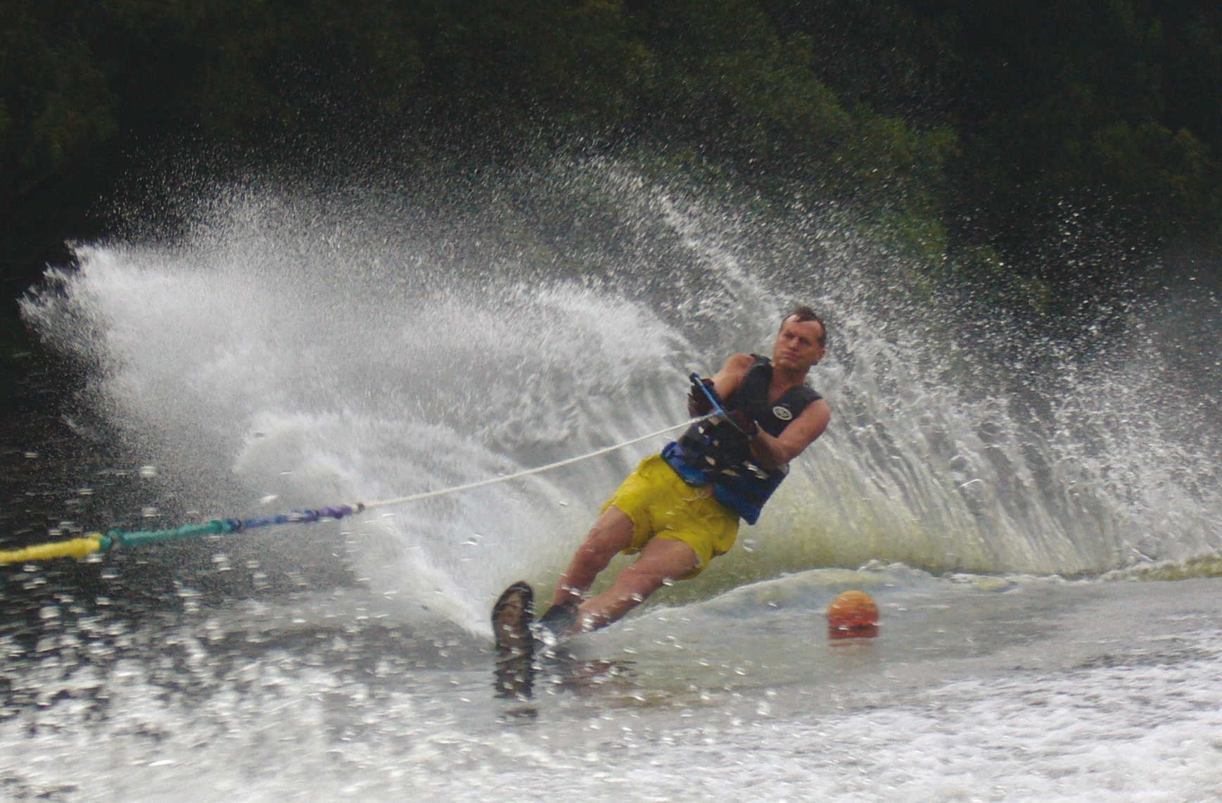 Rolf W. Schnyder waterskiing, 2006